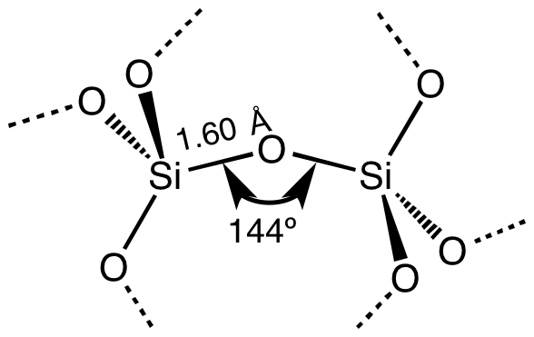 fragment of most SiO2 polymorphs